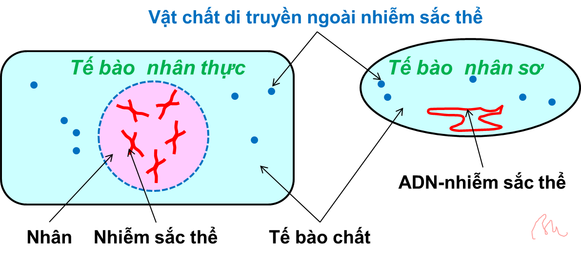 Simplified description of the concept of chromosomal inheritance (the "red") and chromosomal genetic ("blue dot").